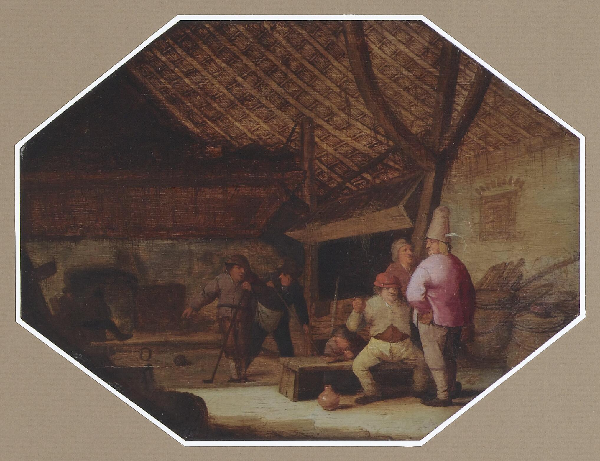 Peasants playing kolf in a barn-like structure